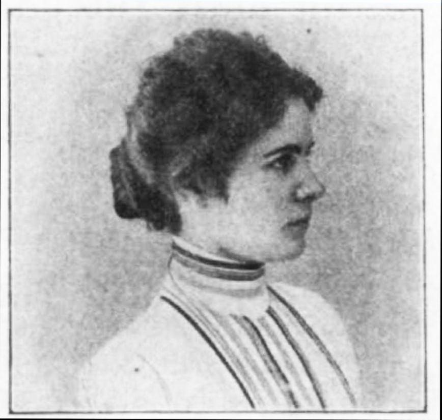 Zemgaliešu Biruta ap 20. gs. I desmitgadē. Fotogrāfija publicēta žurnālā "Dzelme" (1906. g. 9. nr.)